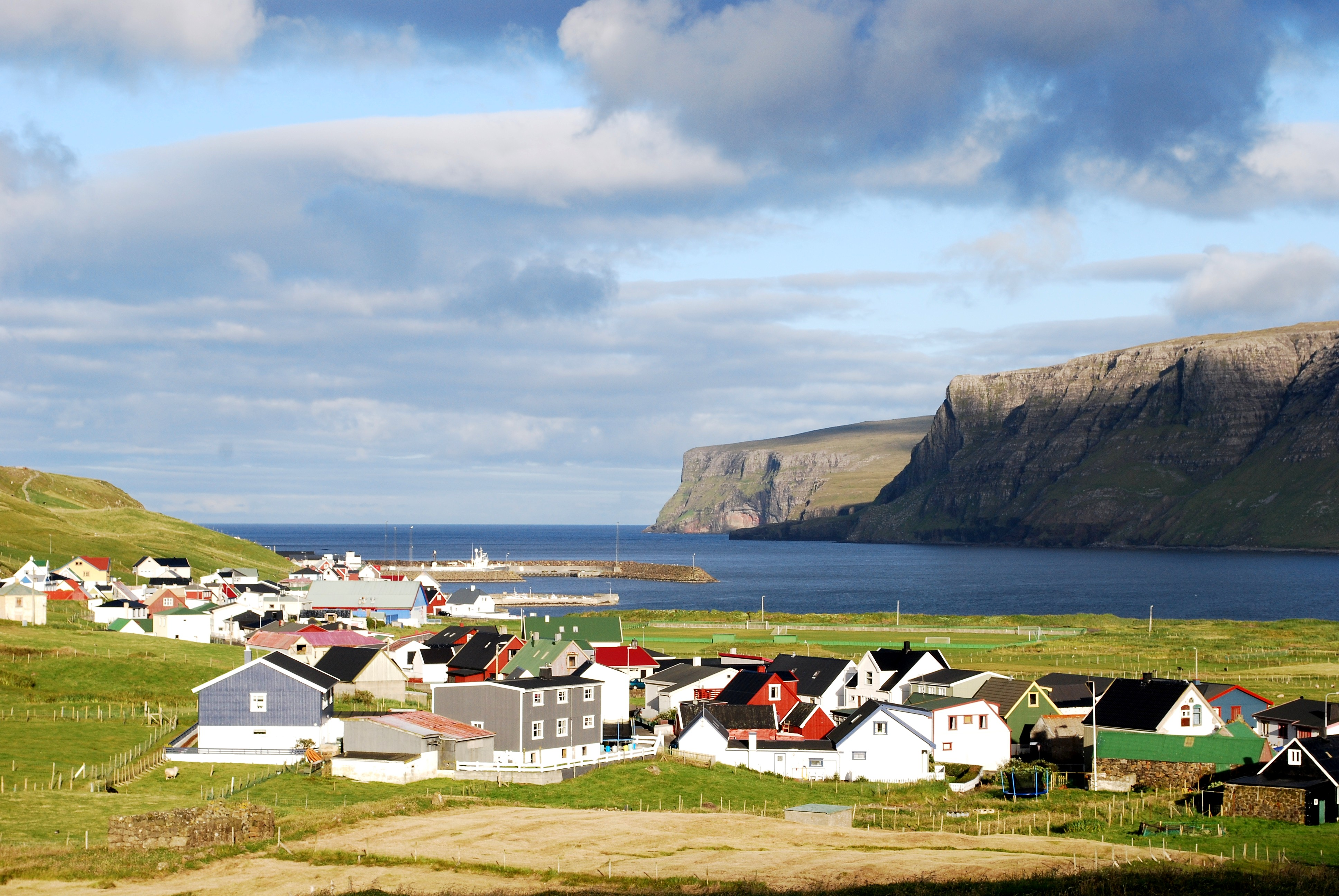 Hvalba, Suðuroy, Faroe Islands